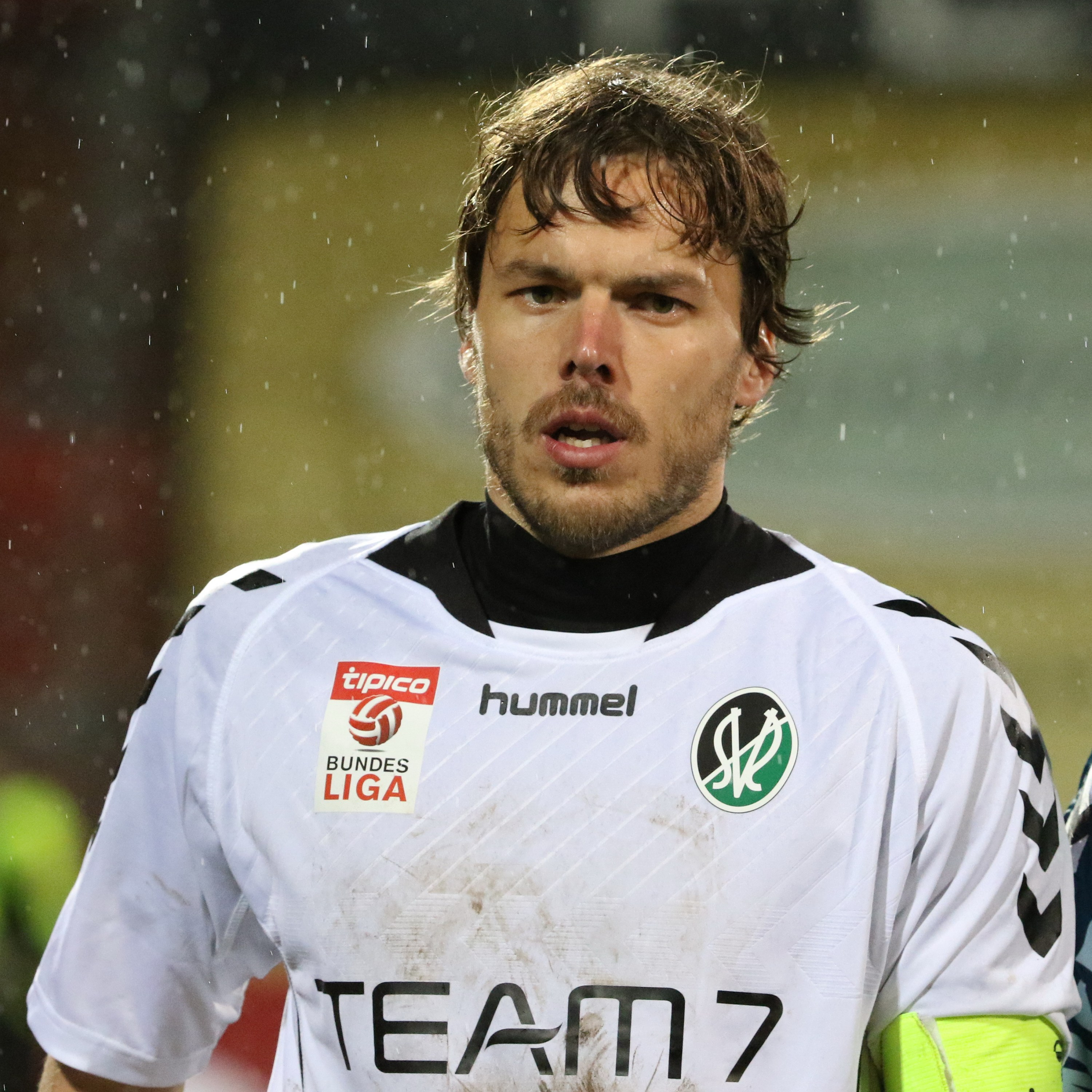 Match of the Austrian Football Bundesliga – FC Admira Wacker Mödling (red shirts) vs. SV Ried (green shirts) 0-0 on 2016-02-20 in Bundesstadion Südstadt – The photo shows Thomas Gebauer, goalkeeper of SV Ried.